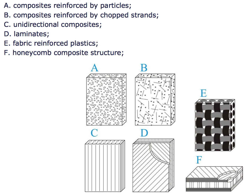 Classification of composites from book Structural Integrity Analysis / Composites by Igor Kokcharov